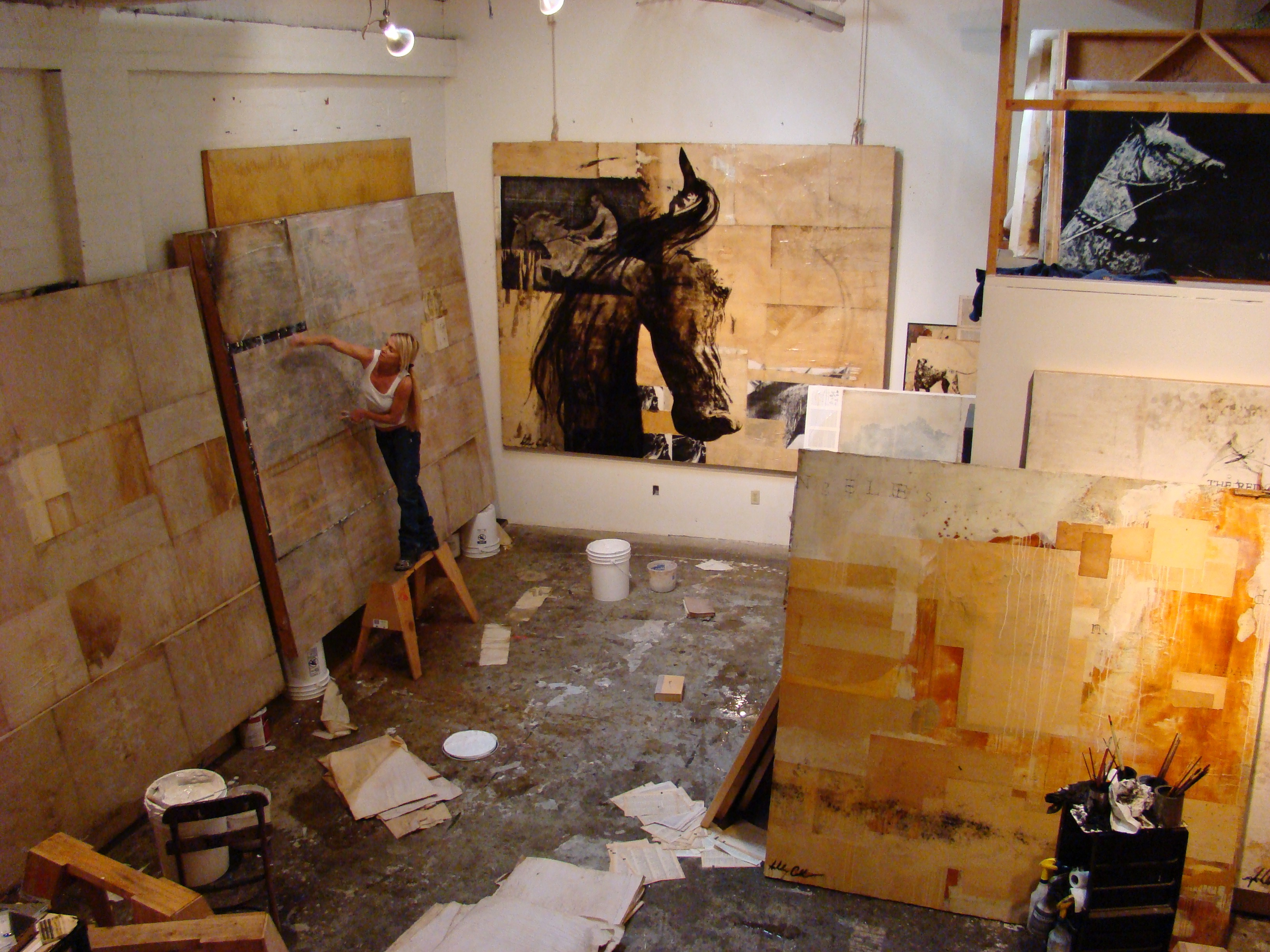 Artist Ashley Collins In Studio With Works In Progress